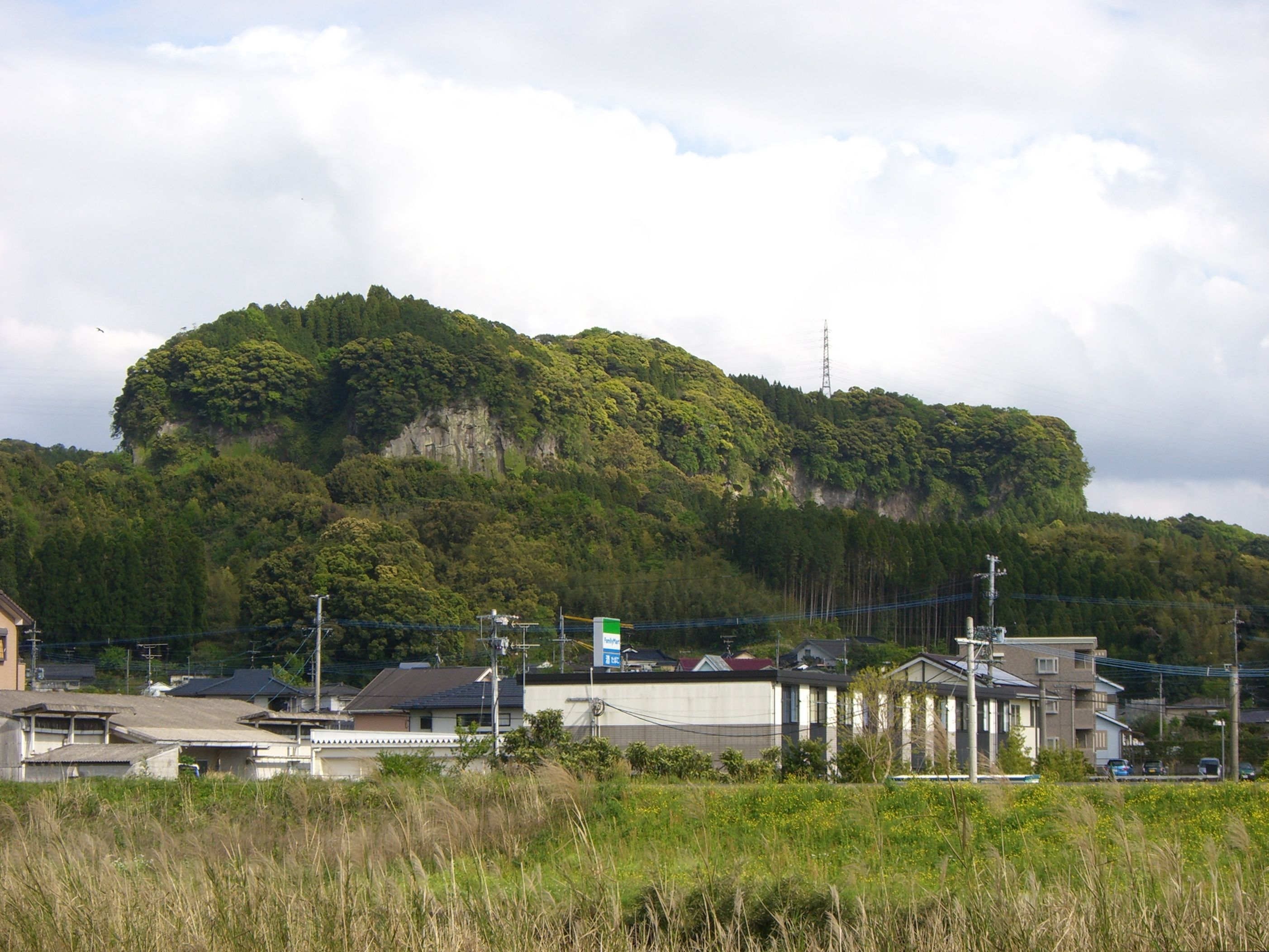 Tachibanaki Castle in Kagoshima, Japan